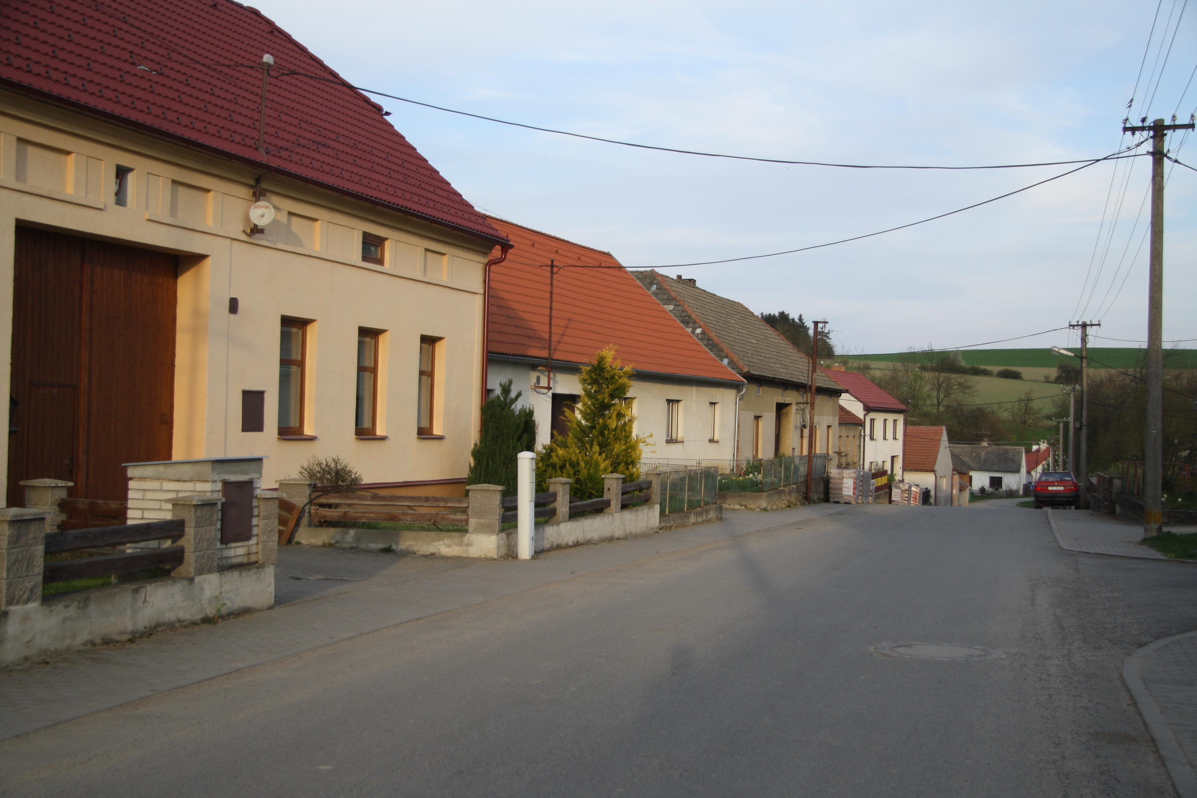 Center of Šašovice, Želetava, Třebíč District.